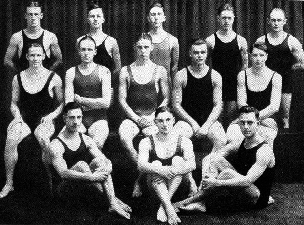 Photograph of the first University of Michigan swim team ("Informal Varsity Swim Team"), 1920, formed by Coach Drullard